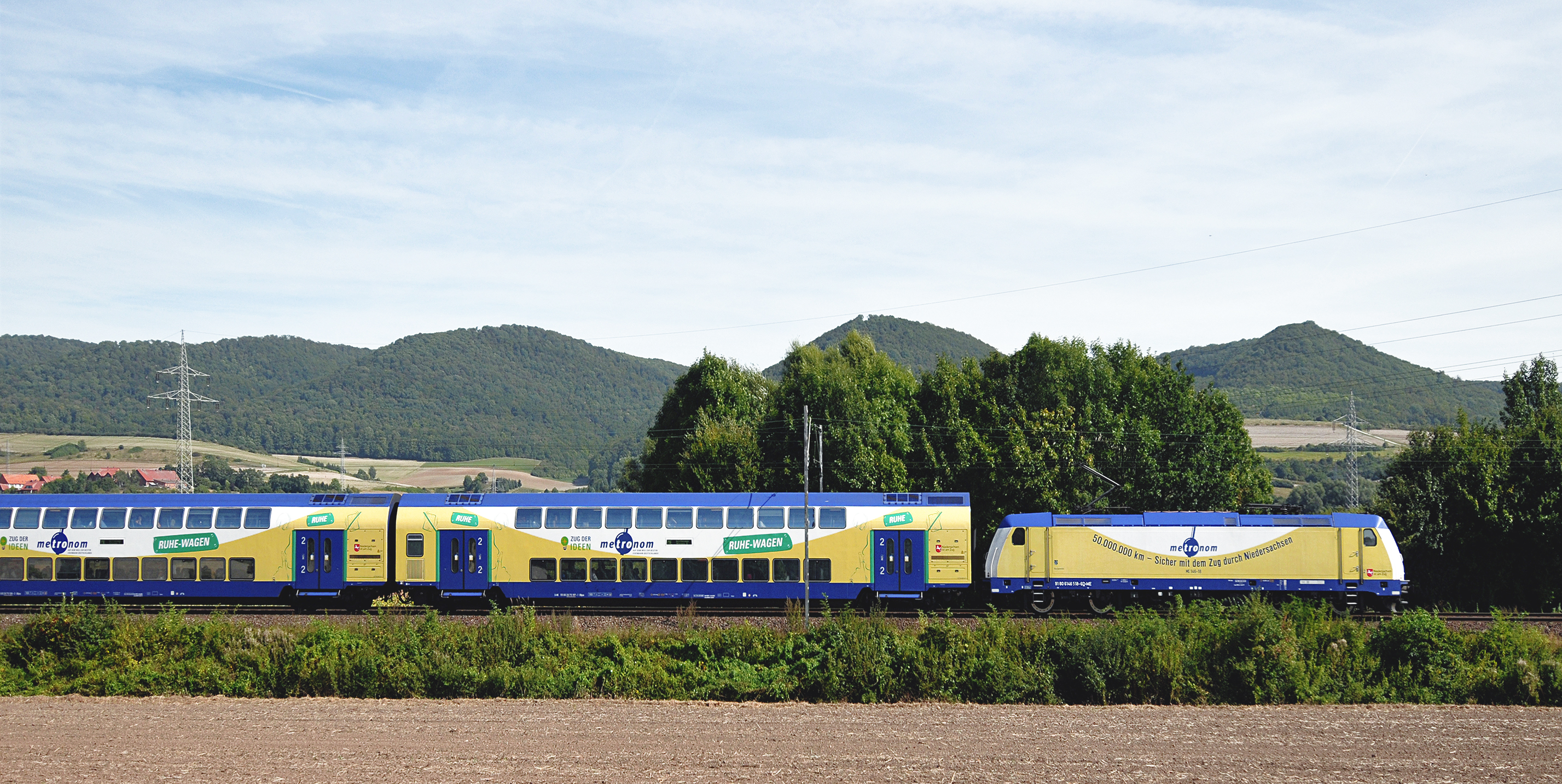 The Metronom Eisenbahngesellschaft is a non-federally-owned railway company based in Uelzen, Lower Saxony since December 2005. The company is exclusively for passenger transport and operates the lines Hamburg-Bremen, Hamburg-Uelzen-Hanover-Göttingen, and Hamburg-Cuxhaven. The company brand is often rendered in lower case as metronom and abbreviated officially ME or MEr. You see their "Train of ideas" in front of the village Wettensen and the Seven Hills. The Seven Hills are a ridge of hills in the district of Hildesheim, Lower Saxony, Germany. The "Train of ideas" has quiet railway carriages (Ruhe-Wagen), railway carriages with snacks, railway carriages for bicycles and reserved regular seats for ticket holder.